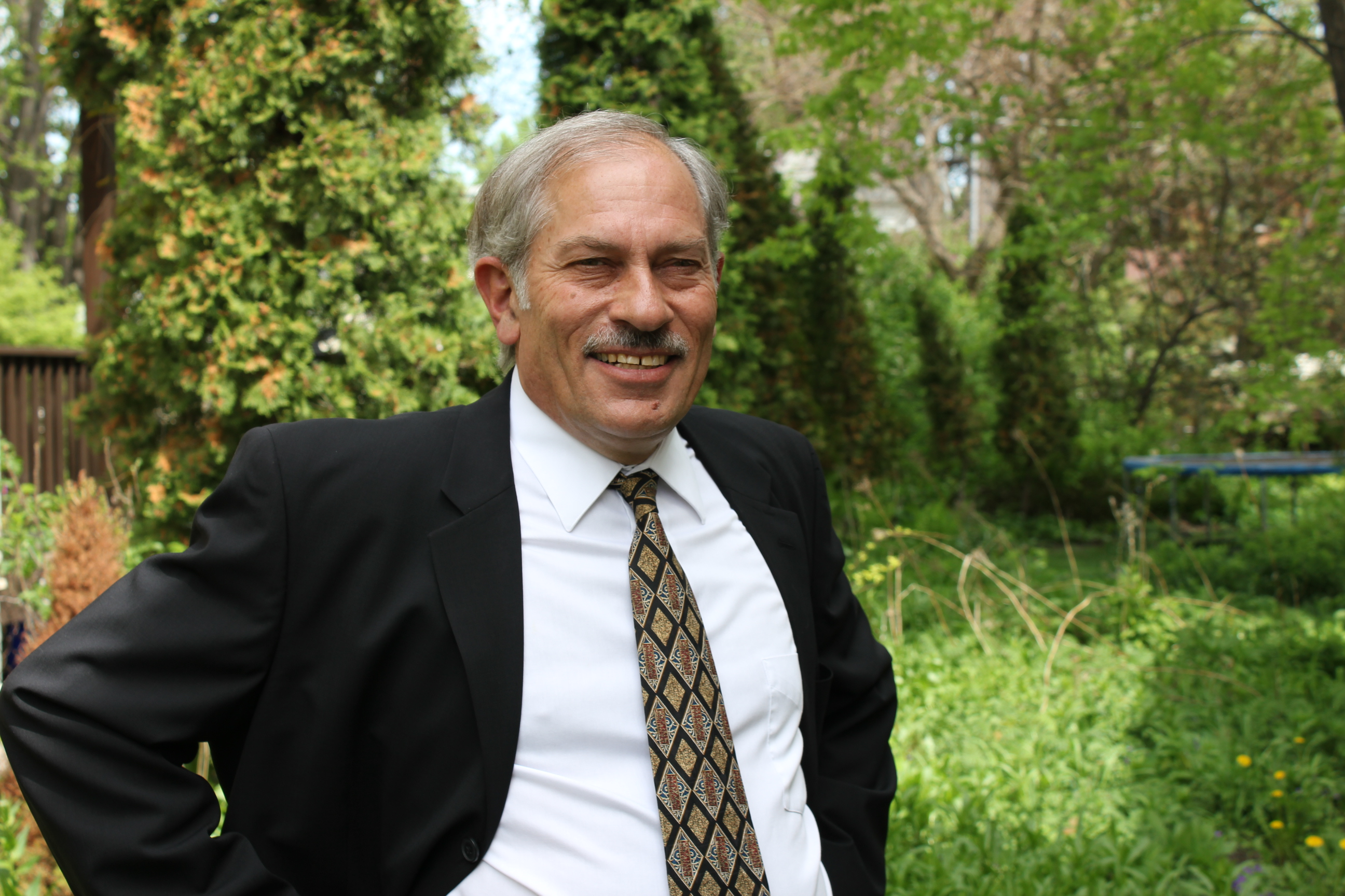 Minnesota Attorney General Candidate Andy Dawkins at his home